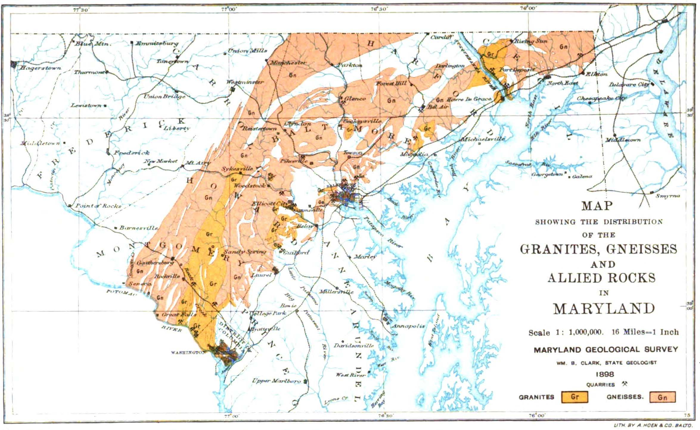 Plate VII of 1898 publication called Maryland Geological Survey Volume Two: "MAP showing the distribution of the Granites, Gneisses and Allied Rocks in Maryland. Scale 1:1,000,000. 16 Miles = 1 Inch. Maryland Geological Survey. Wm. B. Clark, State Geologist. 1898." Also shows quarry locations. Lower right of map says "Lith. by A. Hoen & Co., Balt.".